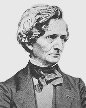 Hector Berlioz by Pierre Petit, 1863